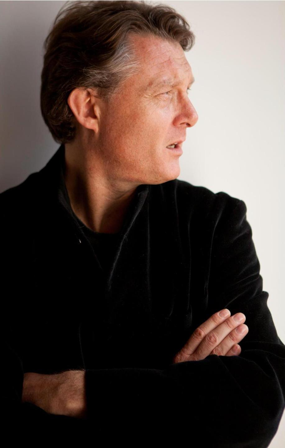 This is the photo given by the person (yann beuron ) about whom the page is about.